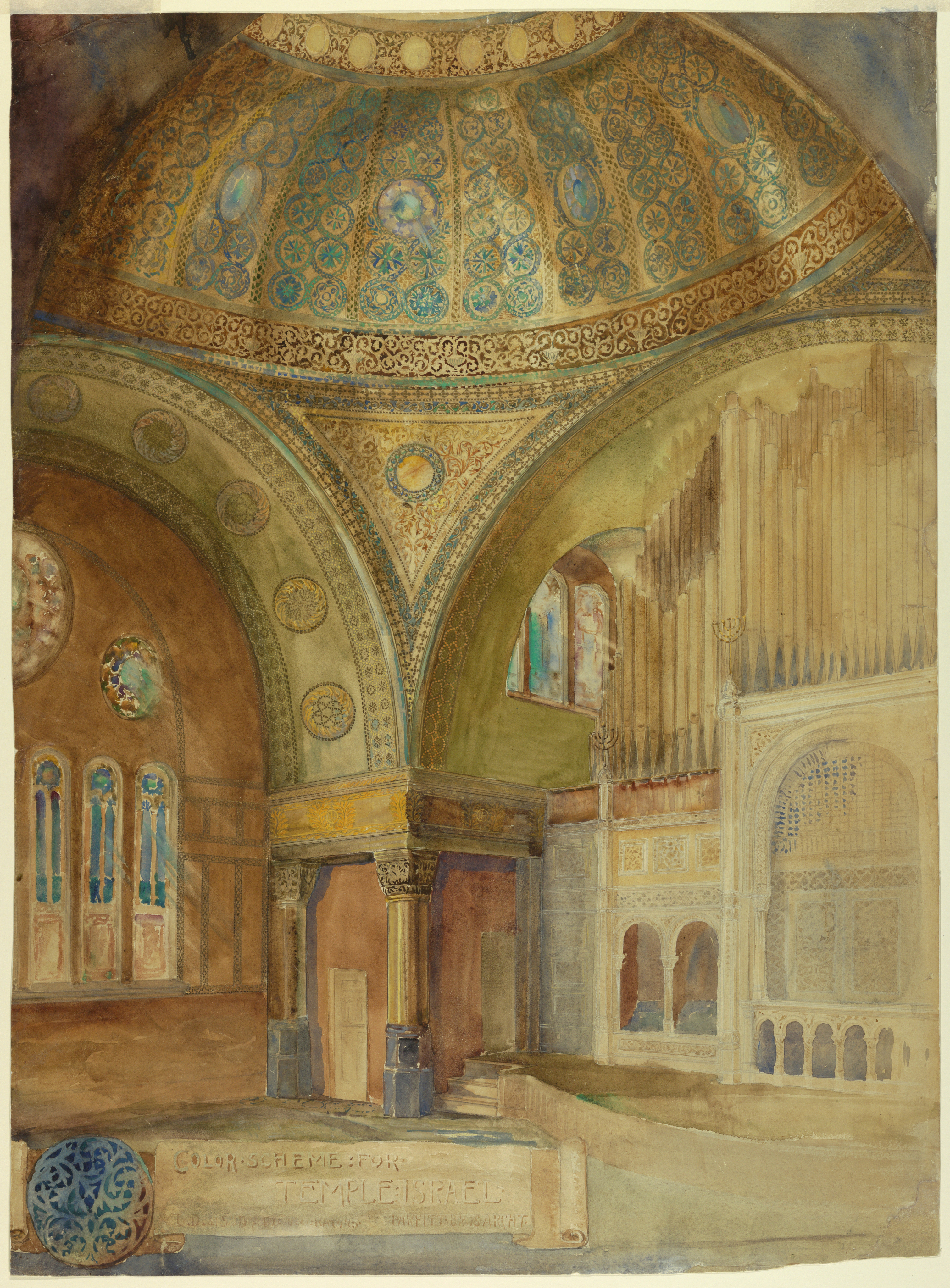 View of temple interior in a Byzantine style with indication of colored marbles and mosaic decoration of a large, vaulted, domed space. Menorahs used as sculptural elements adorn the interior.